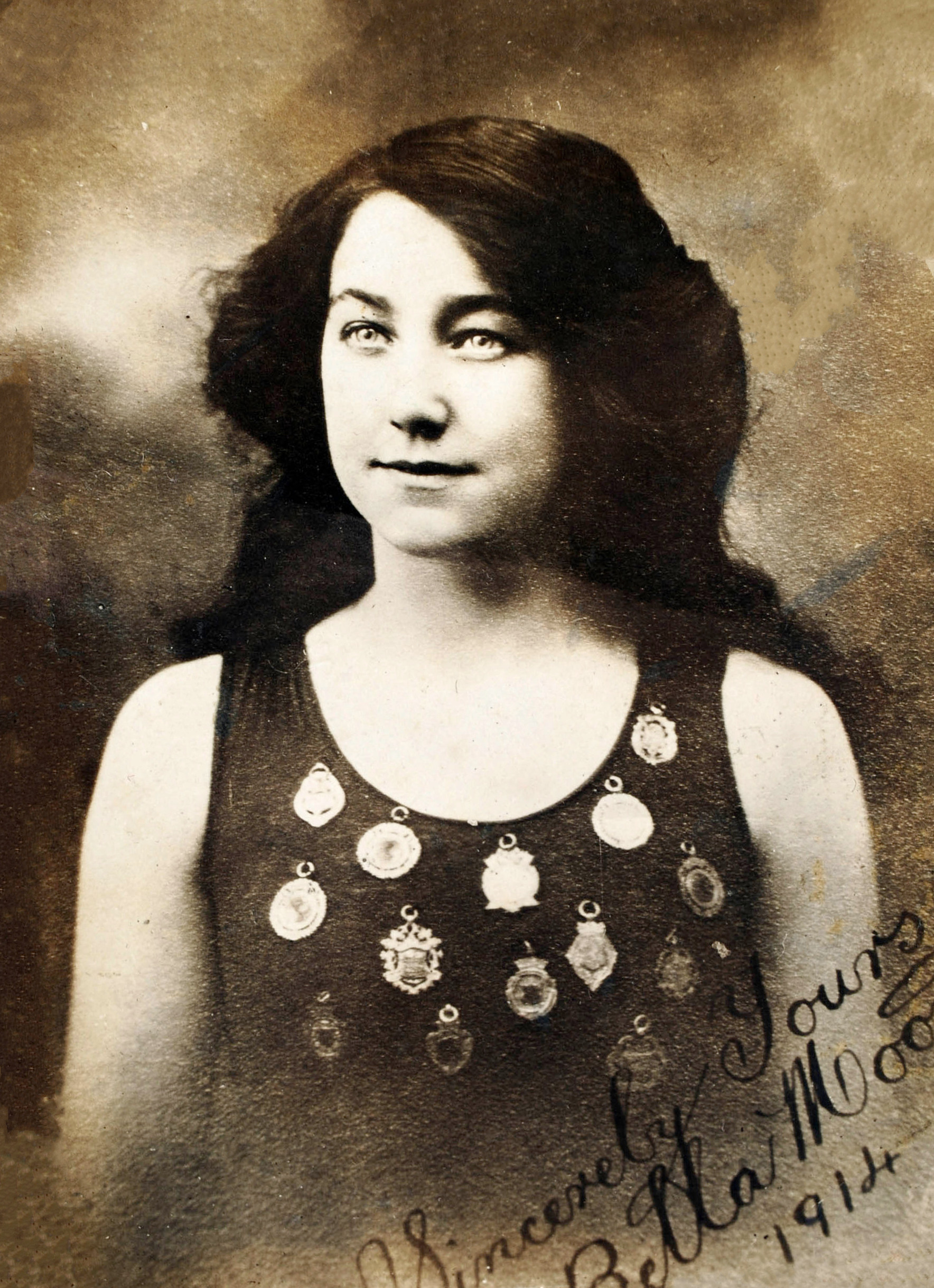 first Scottish woman to win a gold medal